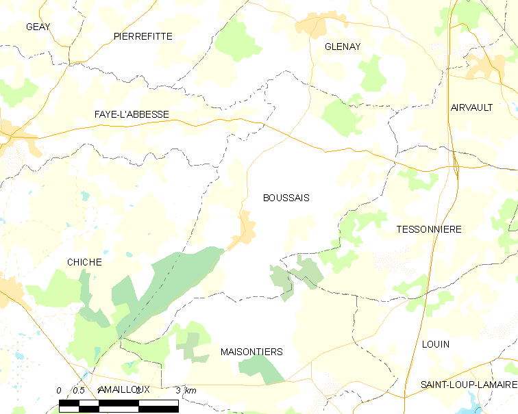 Map of French municipality Boussais